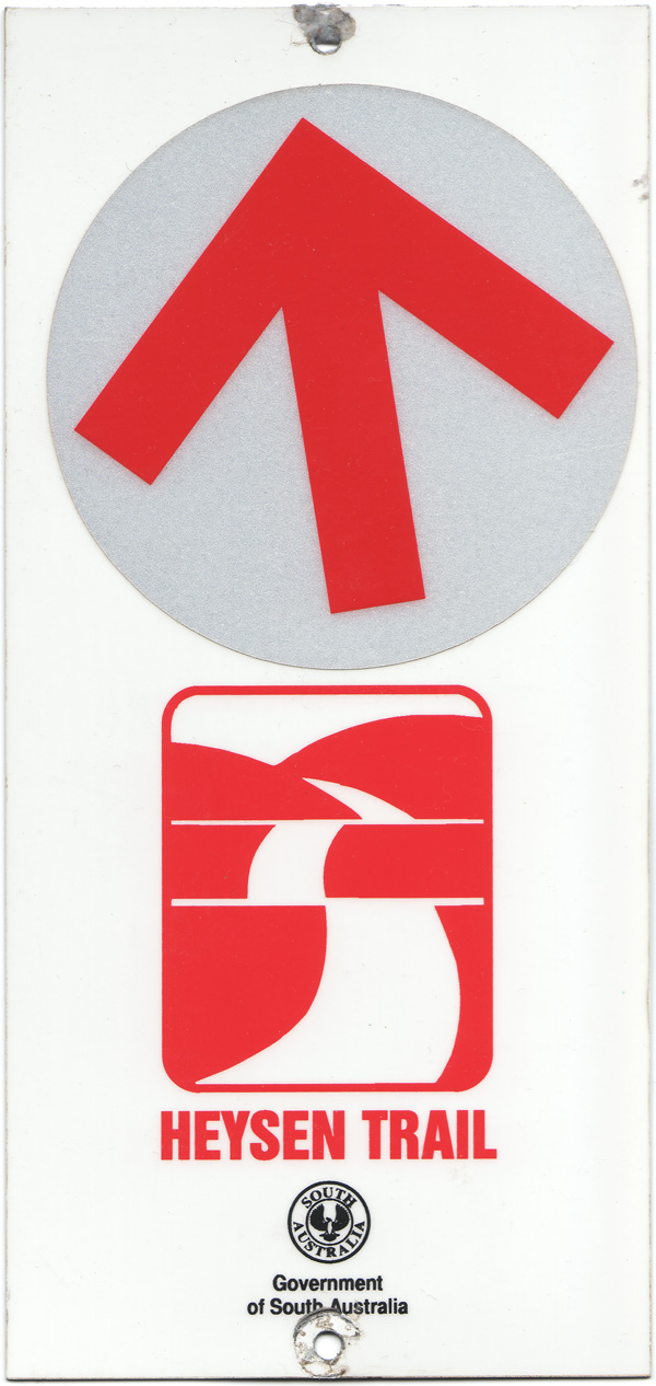 Image by me. A signpost for the Heysen Trail in South Australia.